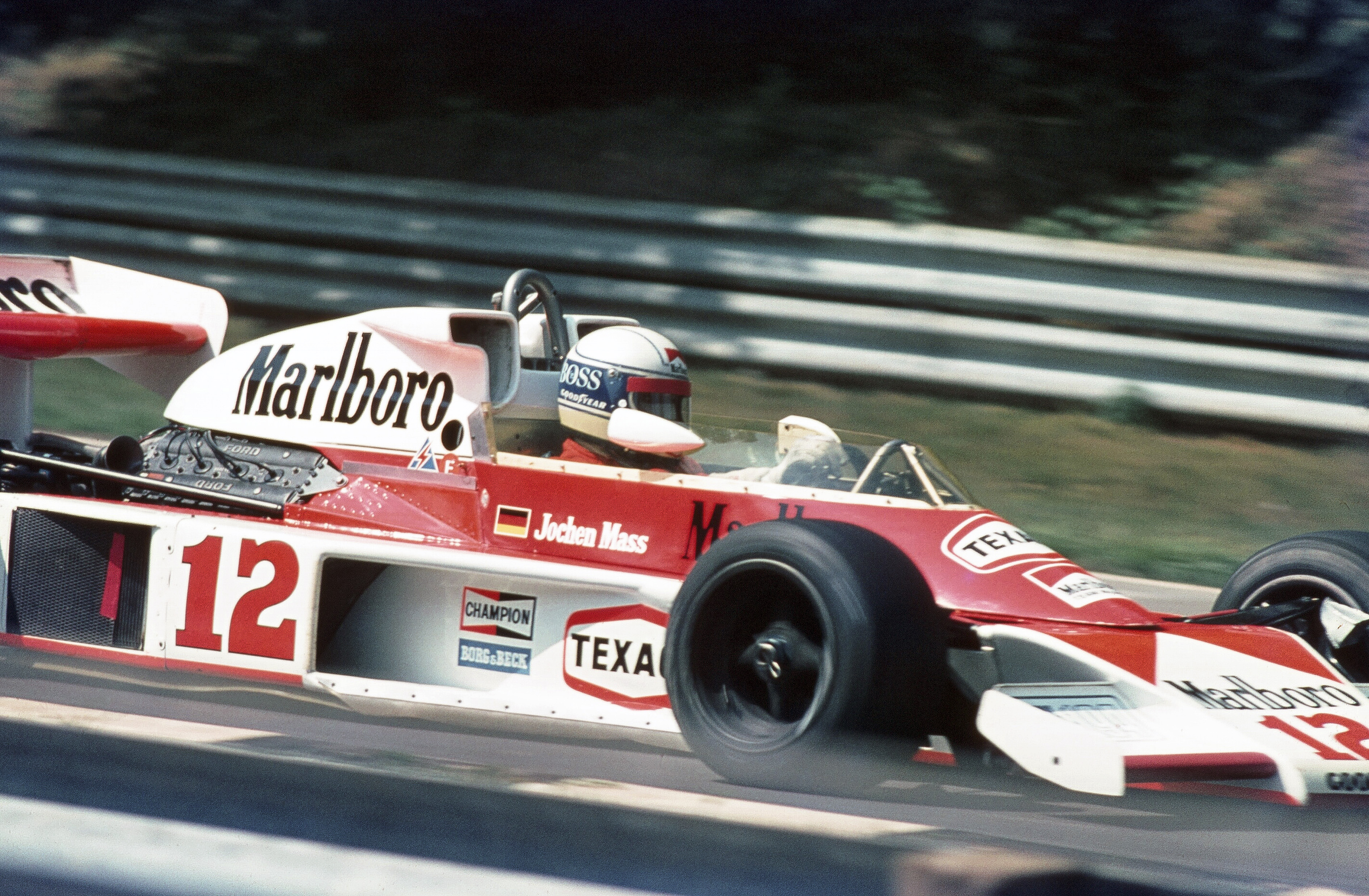 Jochen Mass driving for Team McLaren at John Player Special Grand Prix, Brands Hatch (1976)